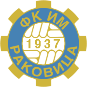 Football Club IM Rakovica Logo